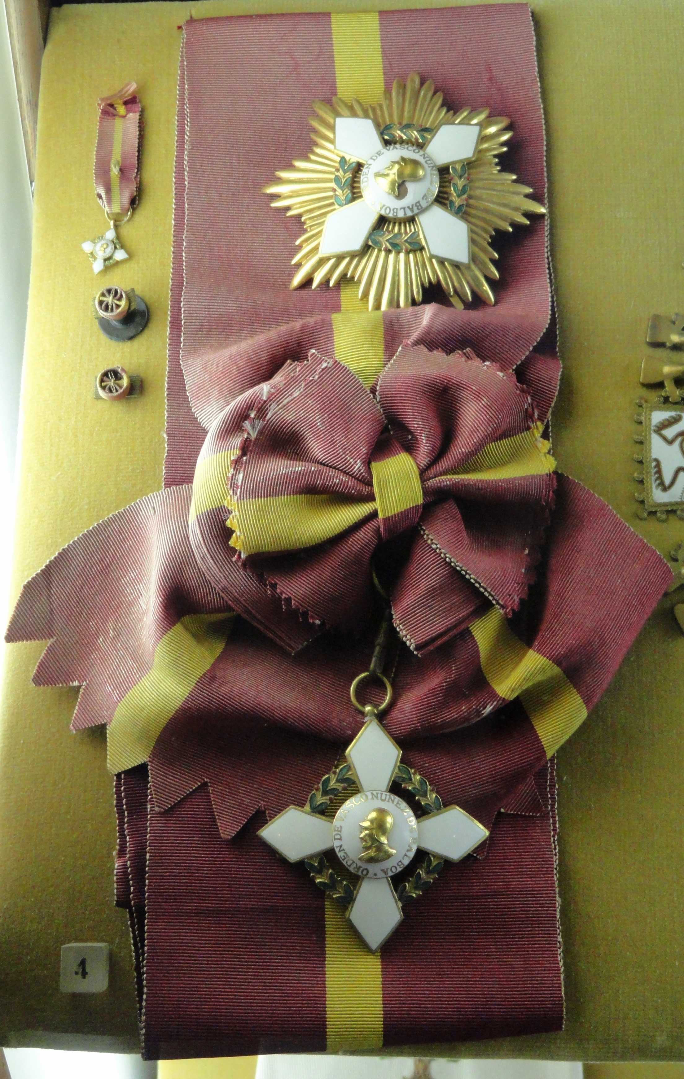 IExhibit in the Memorial JK, Brasília, Brazil.